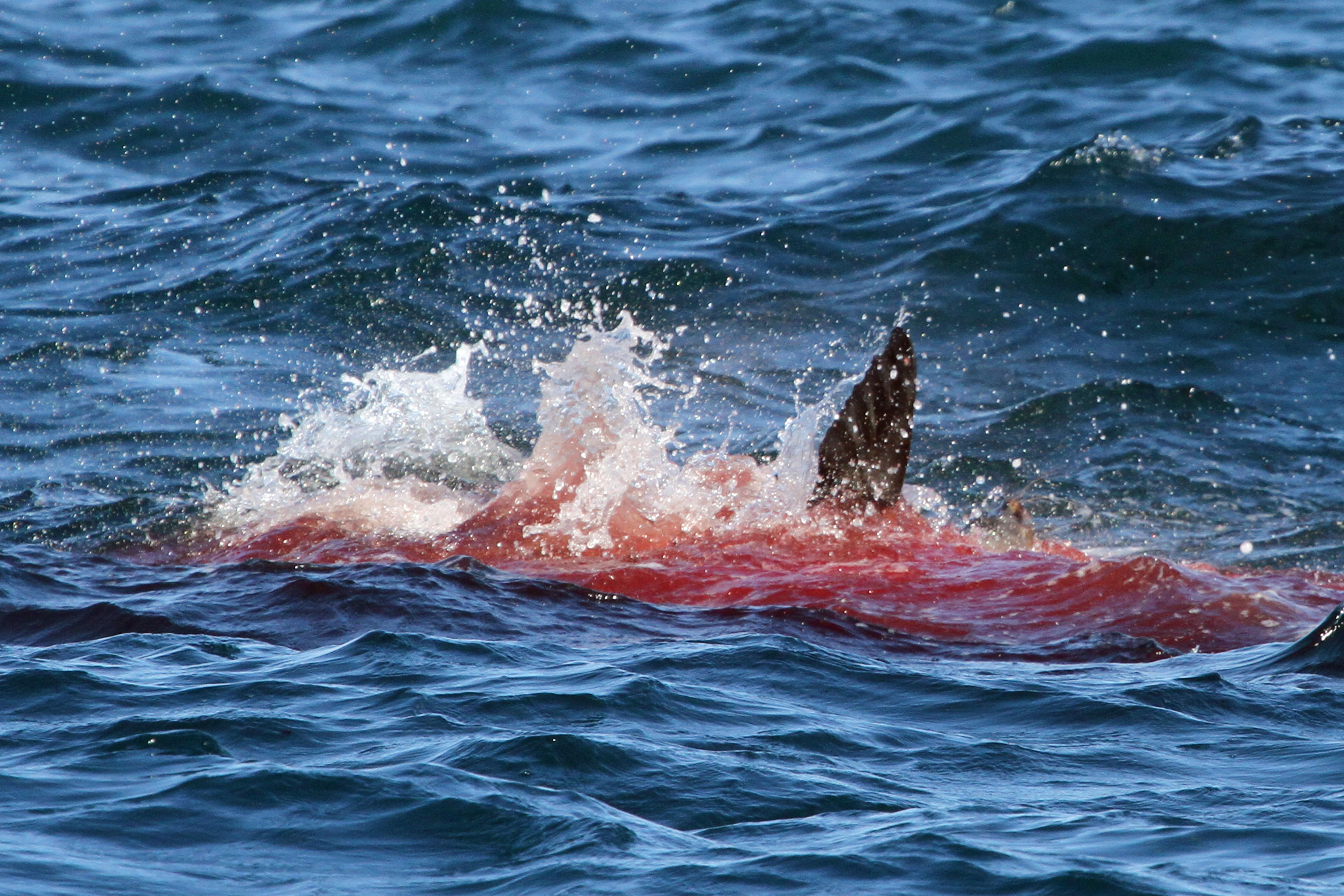 Great White Shark attacking a Sea Lion